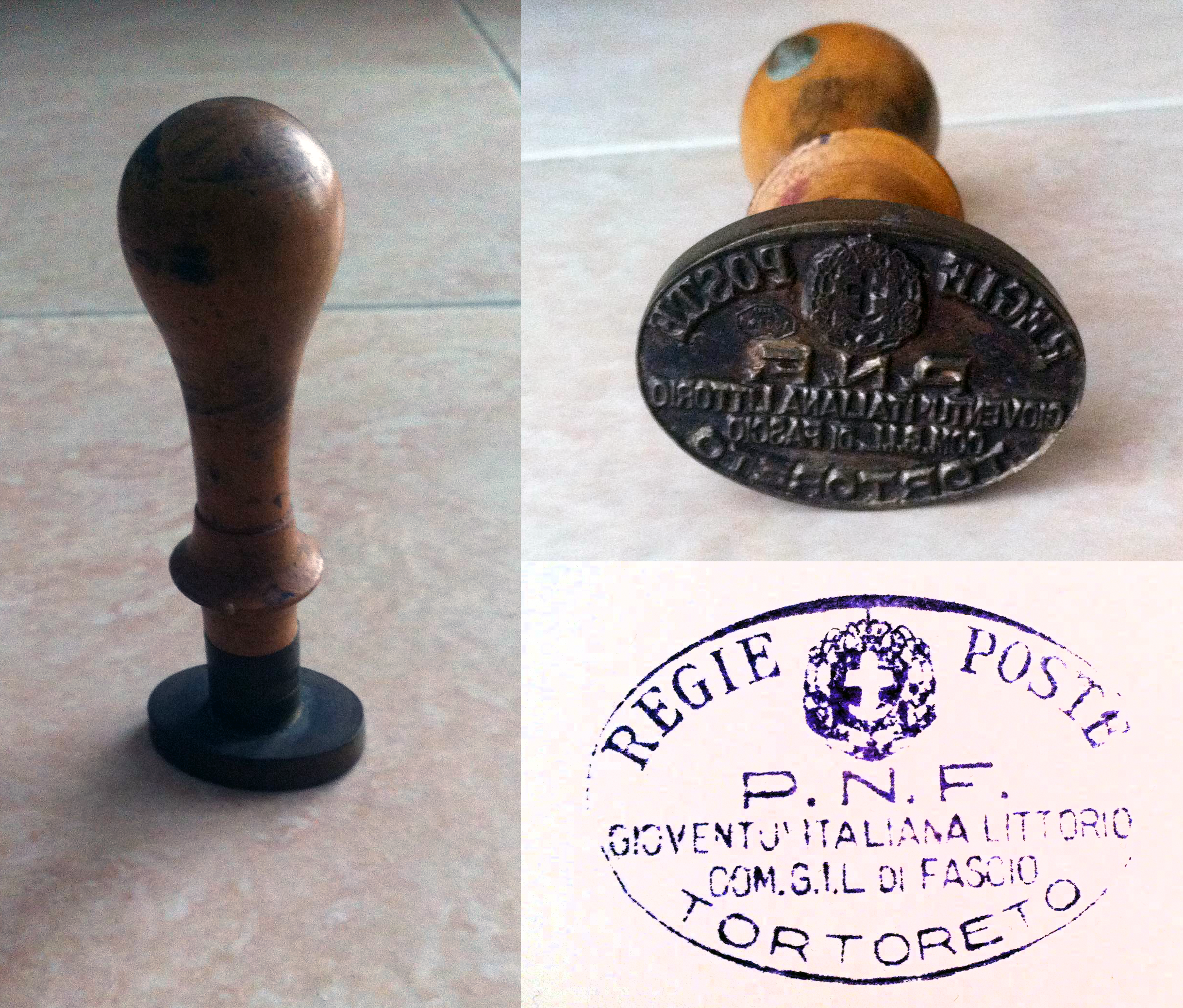 Franchise stamp of the Italian postal service used during fascism by the Tortoreto Gioventù Italiana del Littorio.